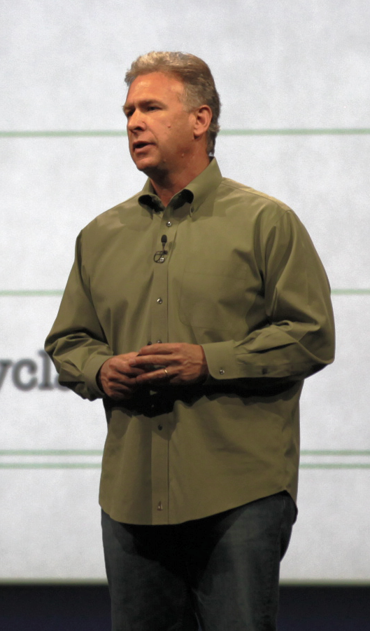 Phil Schiller at WWDC 2012 Keynote